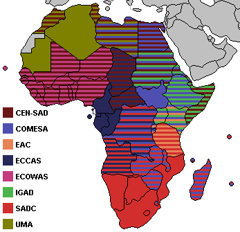 Map of the REC Pillars of the African Economic Community